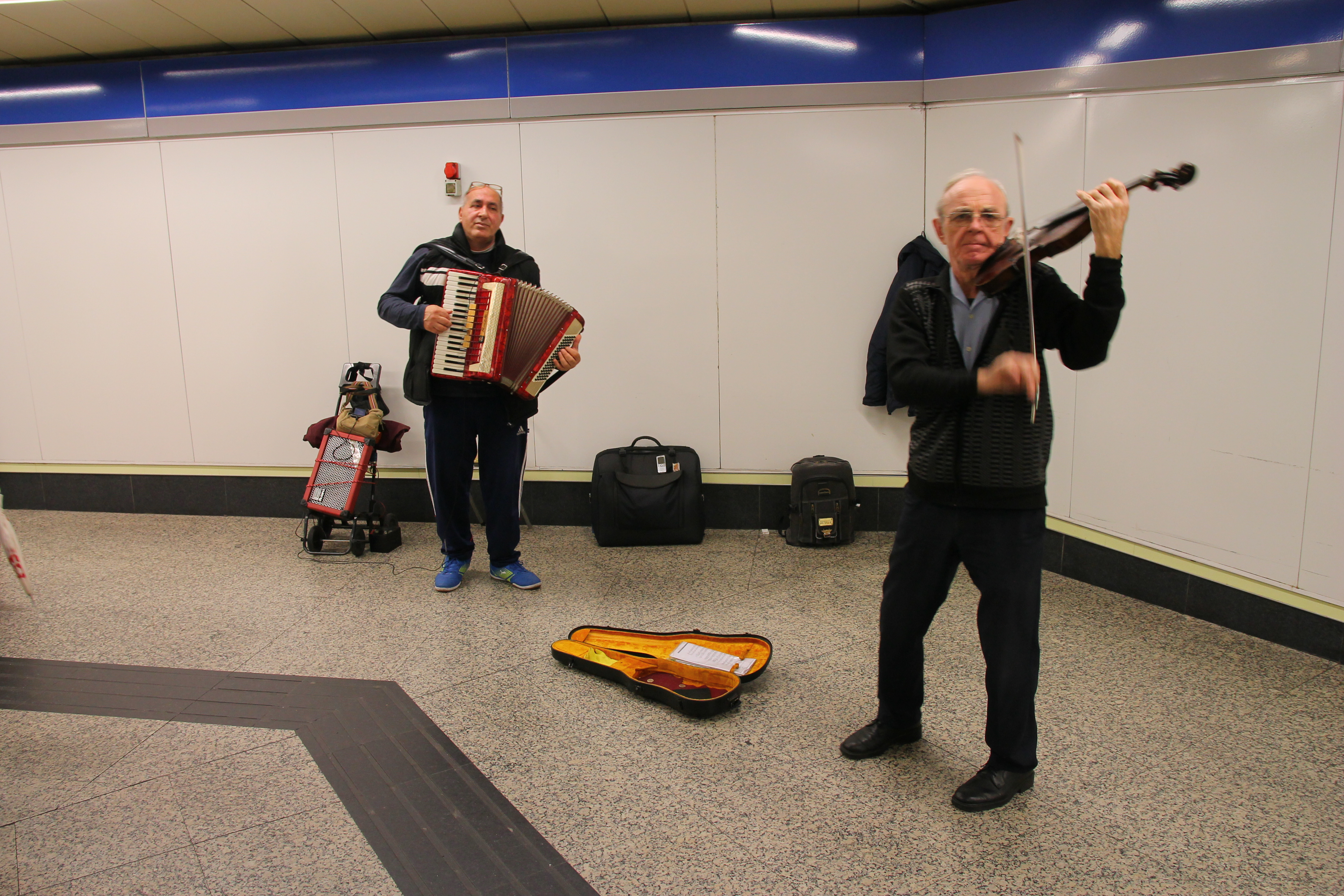 Street musicians in the Nuevos Ministerios metro station, line 8, Madrid